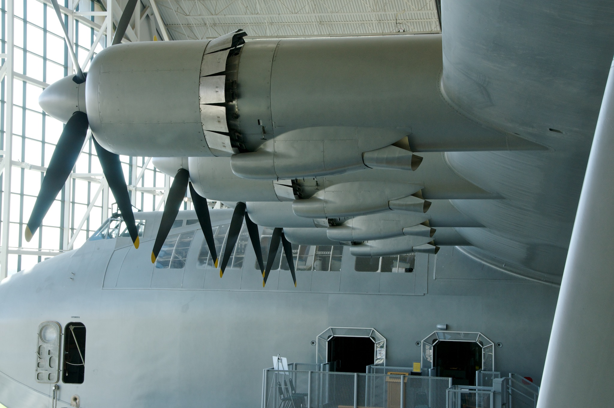 Hughes H-4 Hercules ("Spruce Goose"). Seen at the Evergreen Aviation & Space Museum in McMinnville, Oregon.